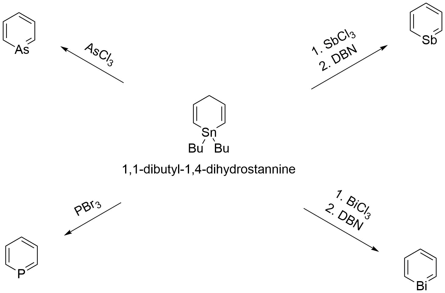 Chemical Reaction Schematic